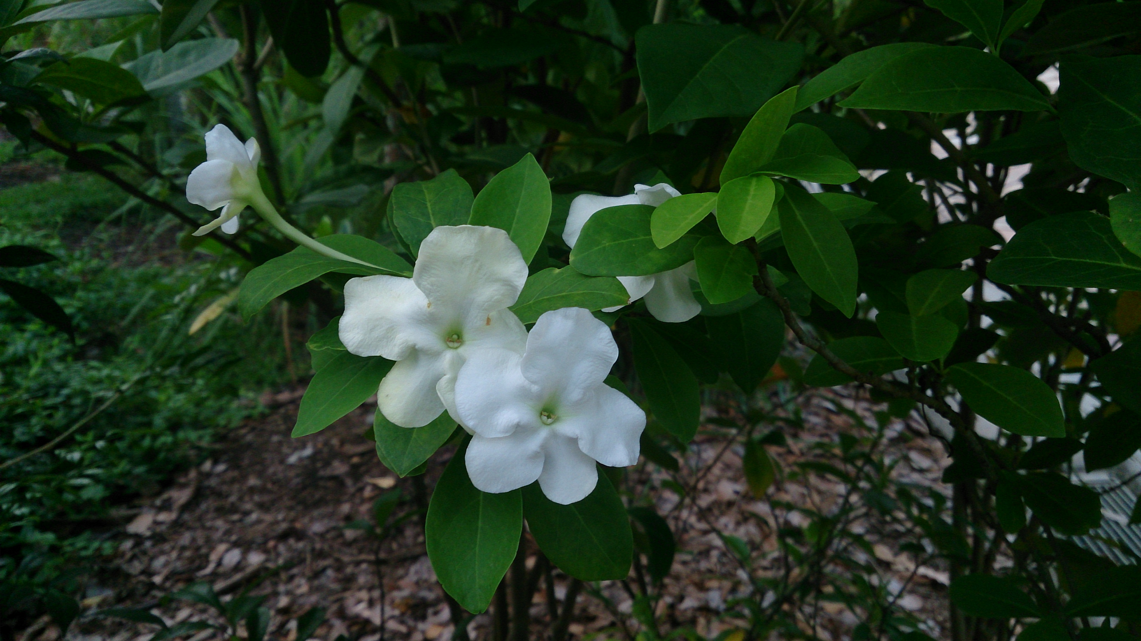 Brunfelsia americana. Common name: Lady of the Night. New flowers are white and fade with age to yellow. Named Lady of the Night for its powerful fragrance in the evening